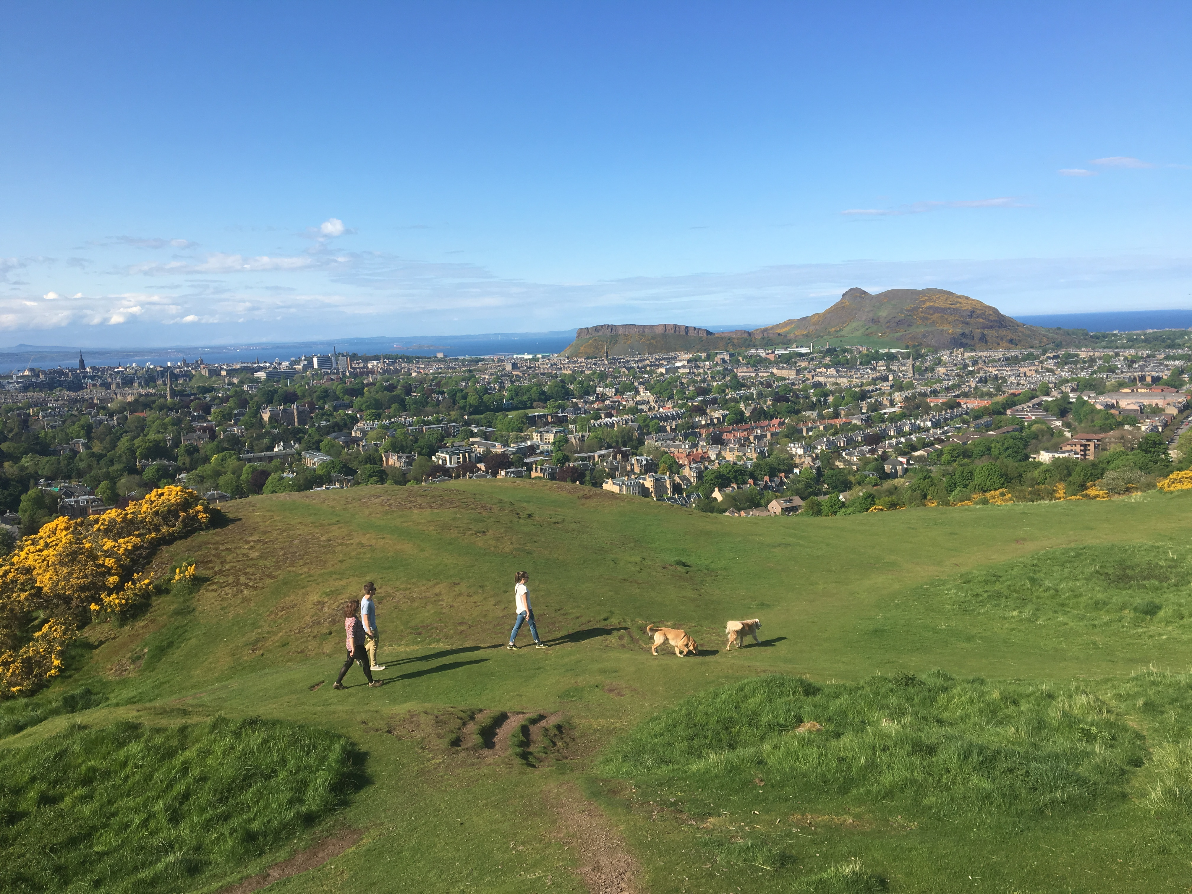 This is a photo taken of Edinburgh's surrounding areas from Arthur's Seat.